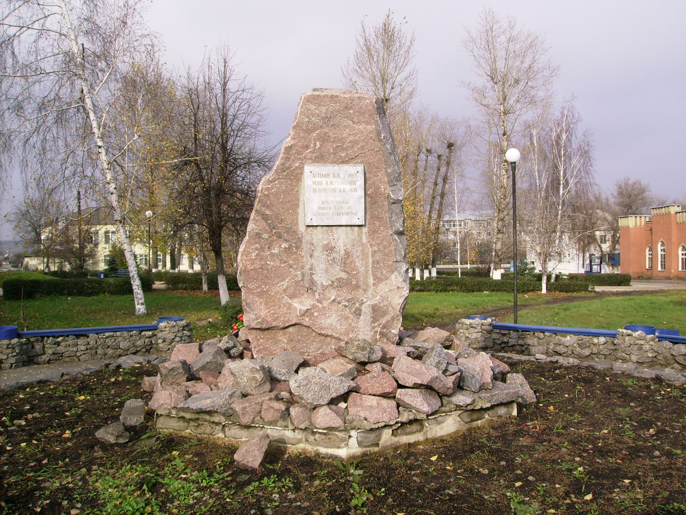 Мемориальная доска погибшим воинам-интернационалистам Артемову А. И., Усову А. И., Яблонских А. П.